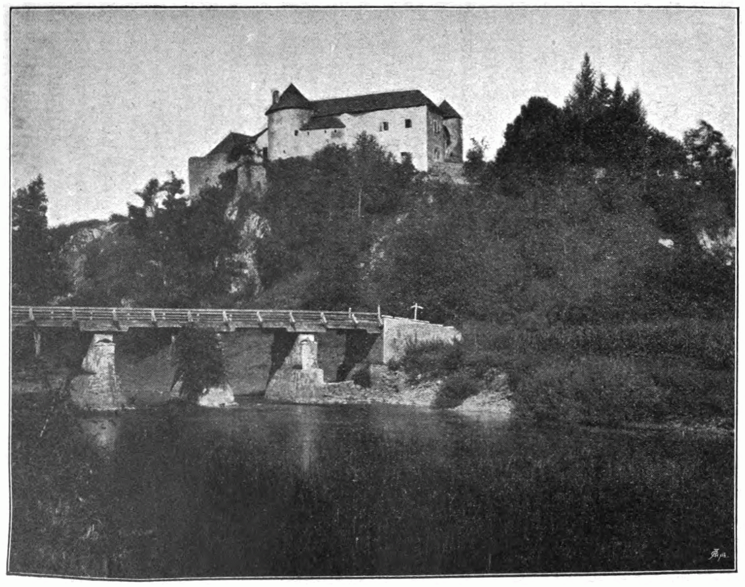 Photography Barilović (by 1893)